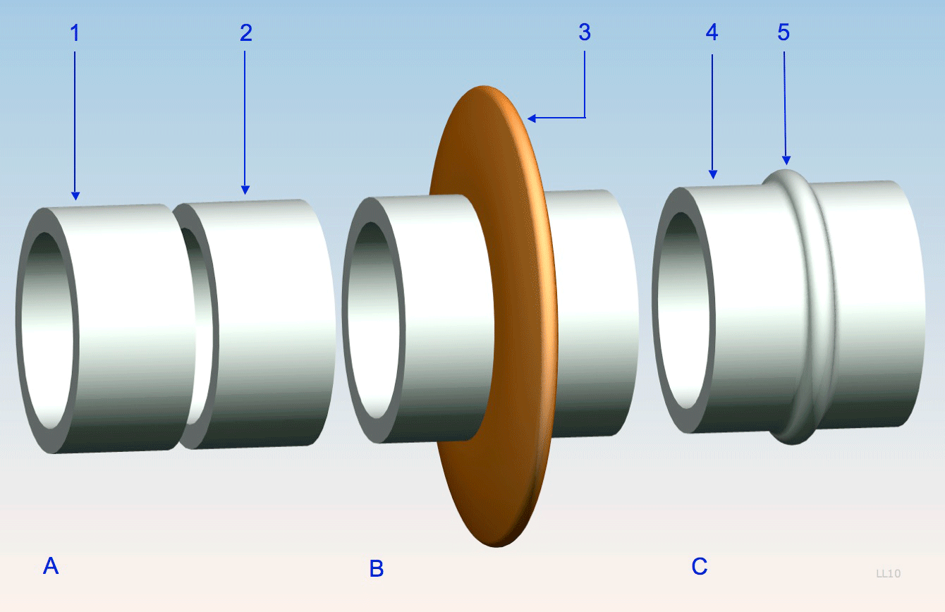 Mirror welding. 1 To be welded part 2 To be welded part. 3 Mirror (head element). 4 Welded part. 5 Weld shape (as a result of the pressure on the parts). A Before welding. B During welding. C After welding.